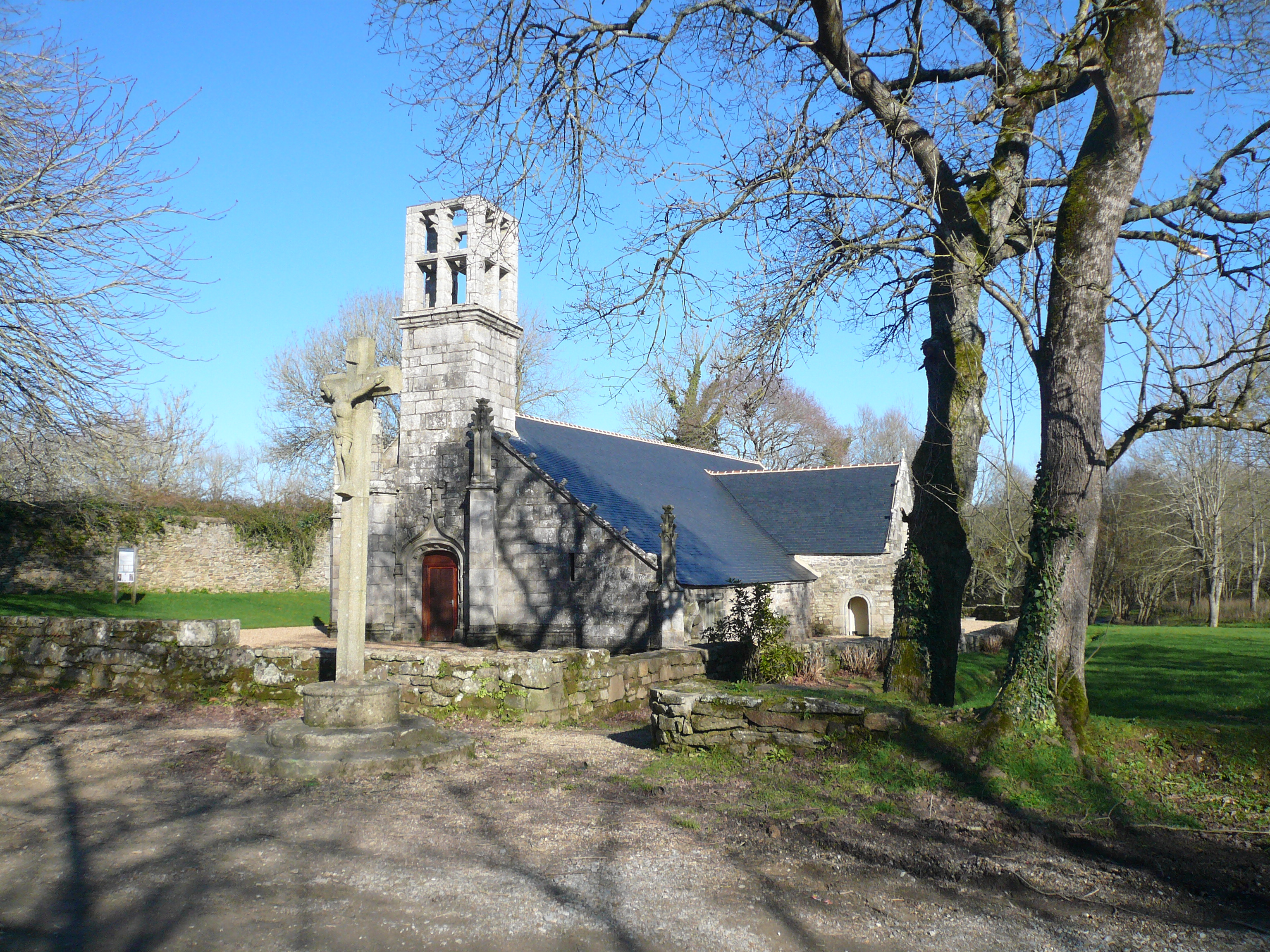 Chapel of Lanvern, Plonéour-Lanvern, Finistère, Brittany, France.